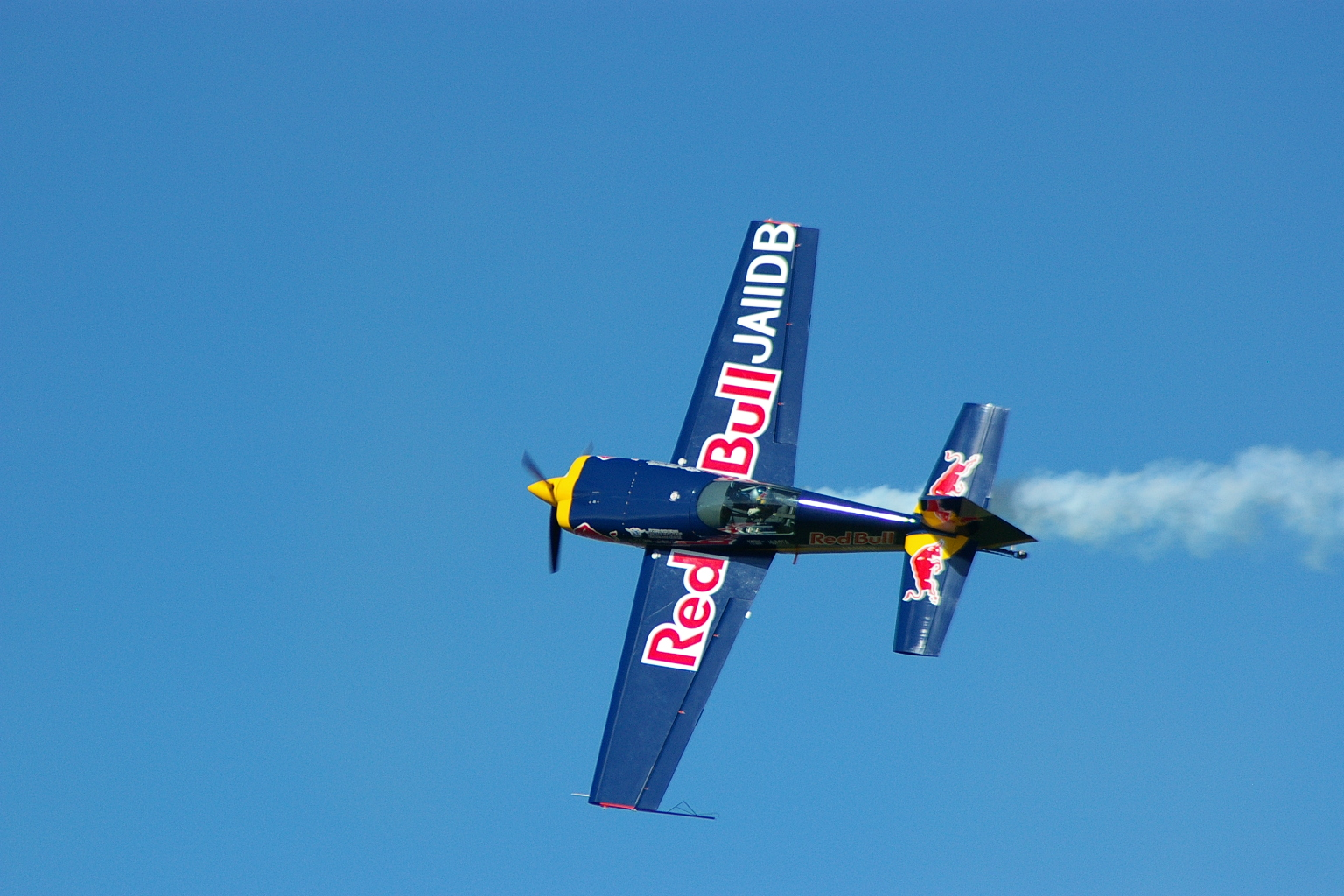 Extra Flugzeugbau 300S.